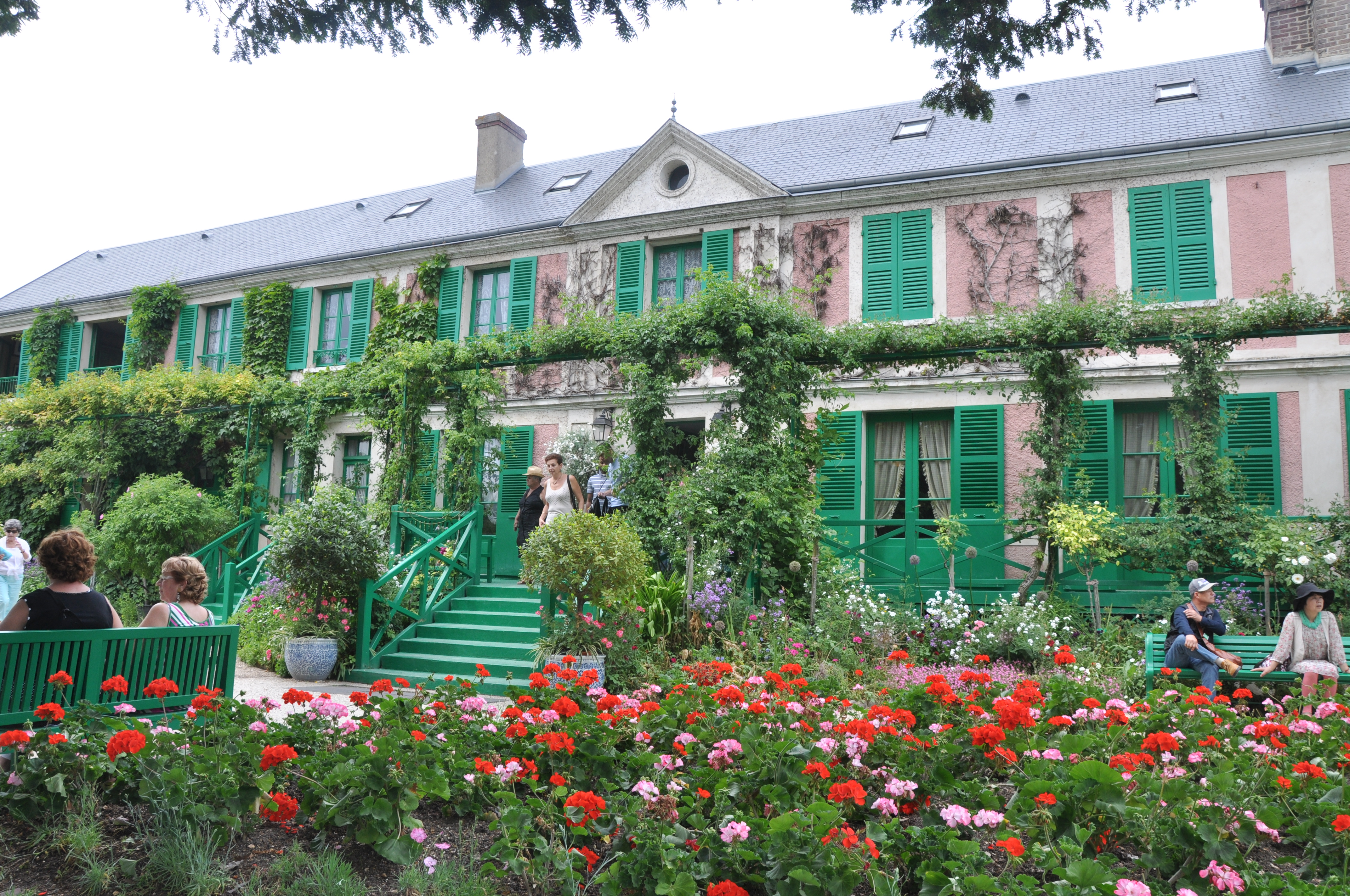 Giverny, (Feance, Normandy) House of Claude Monet